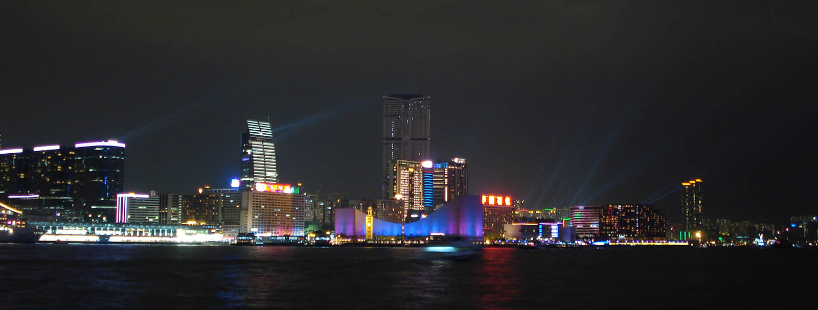 A Symphony of Lights - The kowloon view.